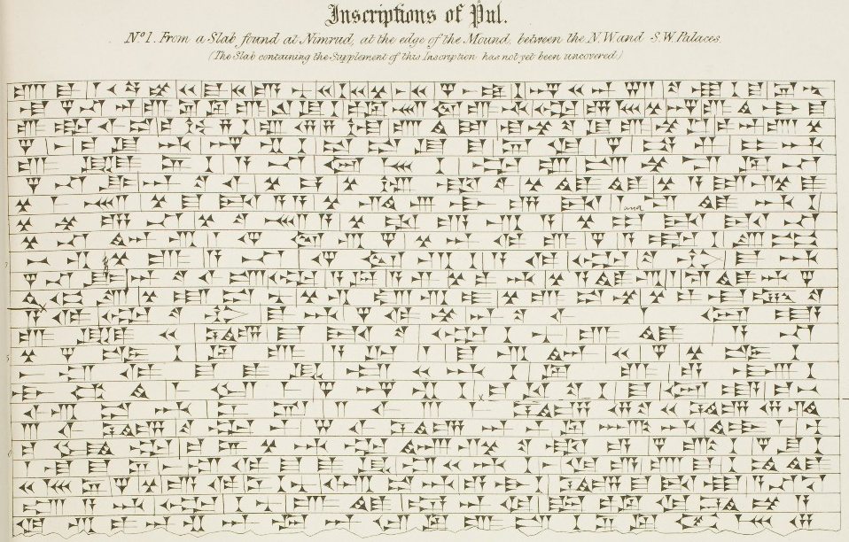 Nimrud Slab (Calah Slab) Inscription - surviving copy of lost inscription